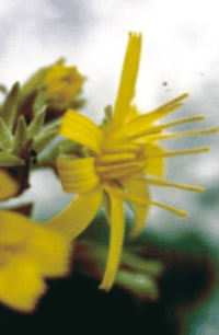 According to IUCN/SSC specialists this is one of the most endangered species of island floras in the Mediterranean area.